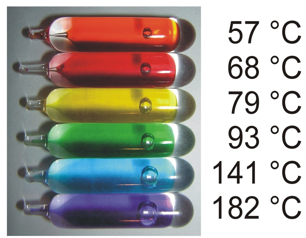 Sprinkler bulbs - PORTUGUES - BULBO DOS SPRINKLER - CORES POR TEMPERATURA